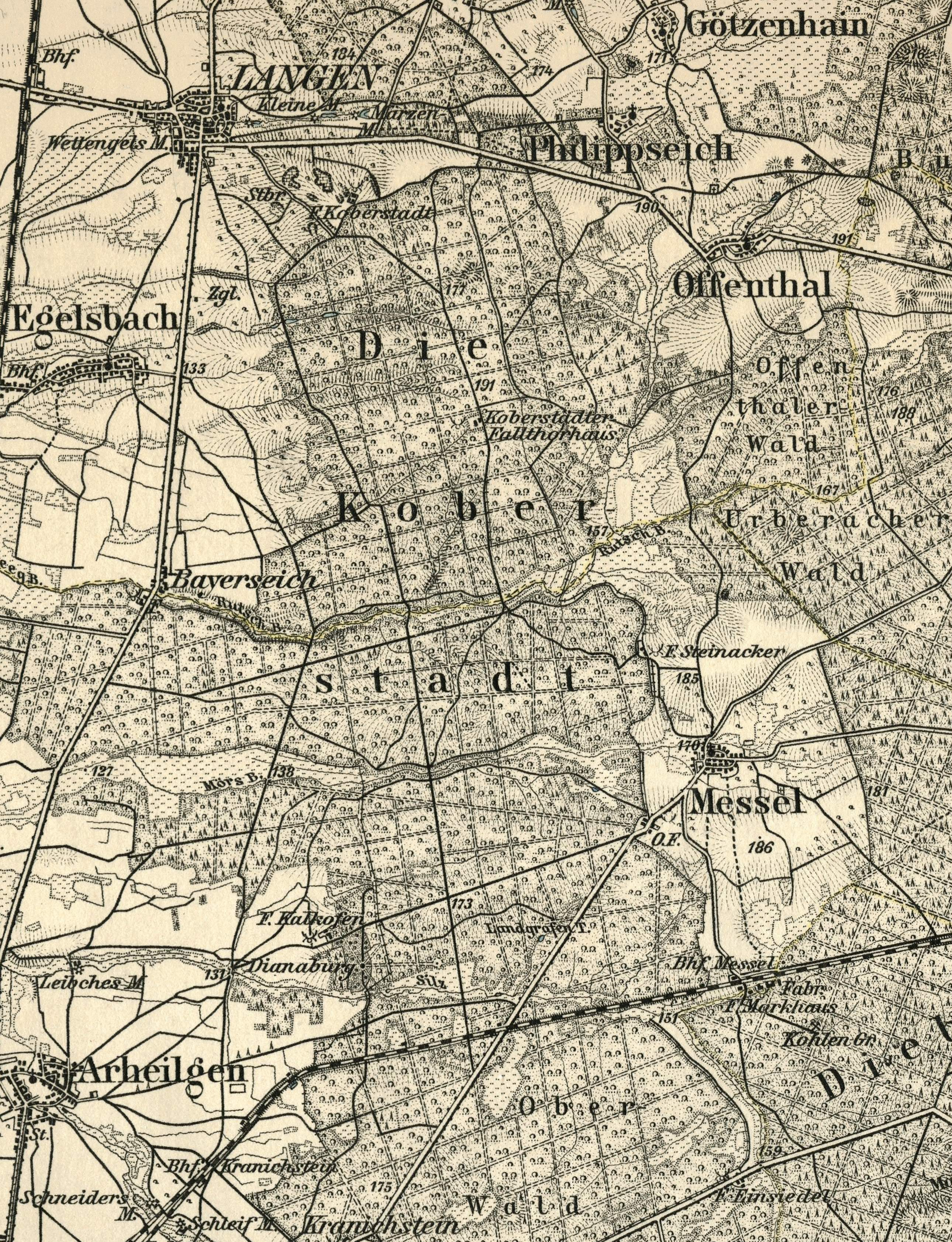 1893 Topographic Map showing the forest of Koberstadt near the city of Langen in the Land of Hesse, Germany Excerpt from "Karte des Deutschen Reiches", 1:100 000, Sheet 527 "Darmstadt". Produced by Reich Office for Land Survey (Reichsamt für Landesaufnahme).